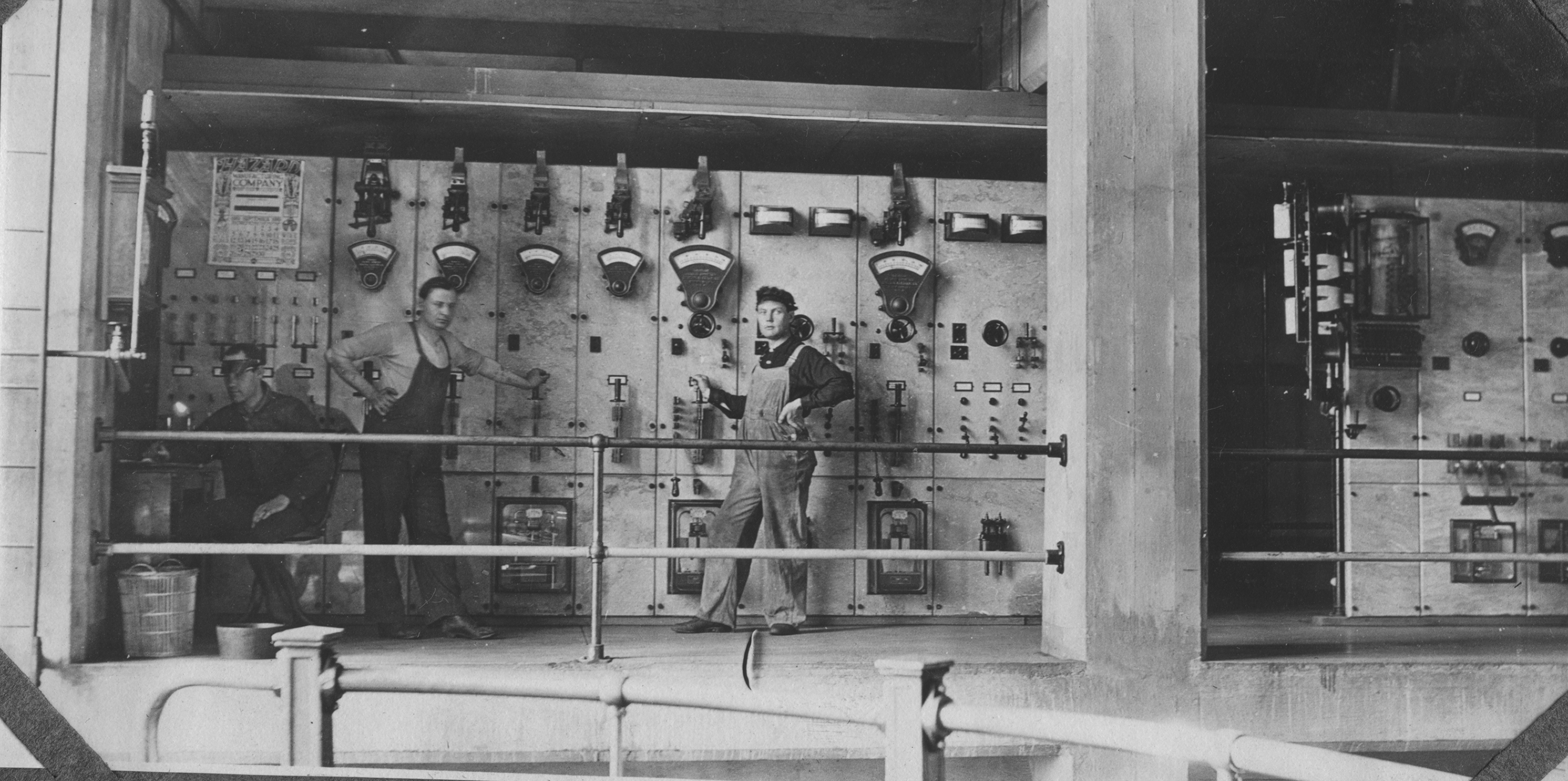 Power station workers, "Seattle Electric Company.A.C. and Turbine boards in Georgetown Power Station. Taken from small turbo." Georgetown, Washington, 1909. Only a few years later, Georgetown was annexed by Seattle. This building survives today as the Georgetown PowerPlant Museum. Item 171372, City Light Photographic Prints (Record Series 1204-02), Seattle Municipal Archives.